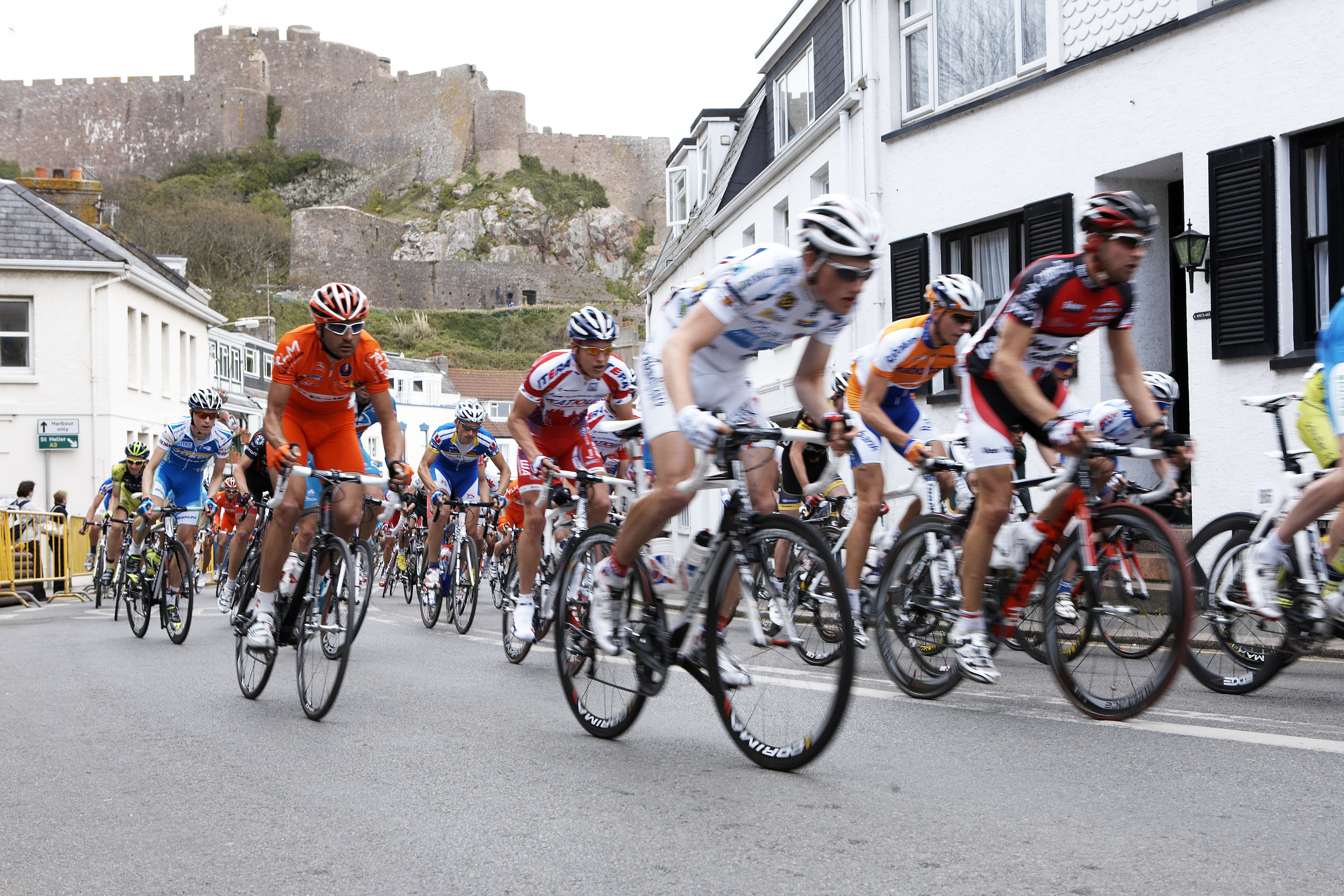 Over a hundred professional riders, with teams competing from all over the world including members of the British National cycle team, took part in the opening stage of the Tour de Bretagne 2010. It was the first time the event, escorted by the President of France's Garde Republicaine motorcyclecade, had left its native shores of Brittany, France. It was a spectacular day.